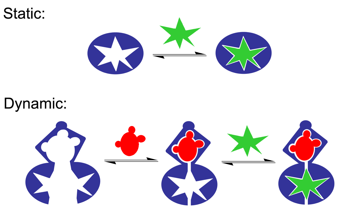 Cartoon illustrates both a static and dynamic molecular recognition. I made it and all are free to use it.